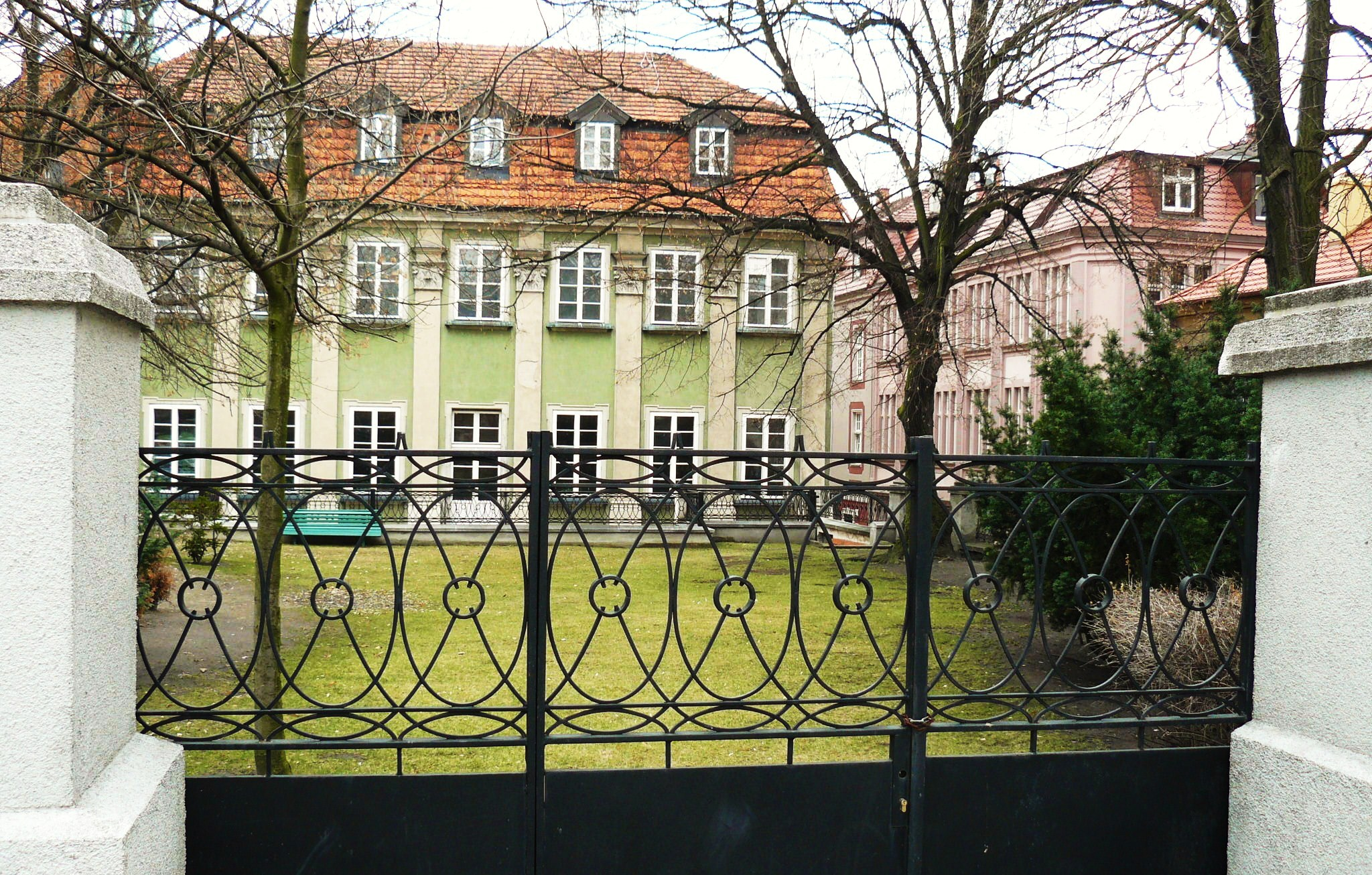 Garden of Dzialynski Palace in Poznan.